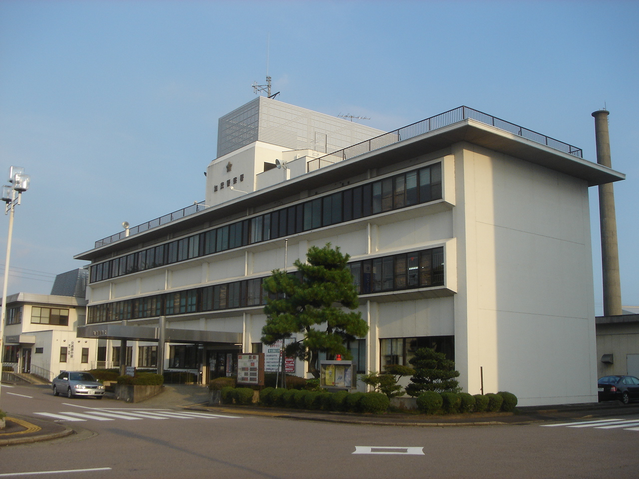 Kamo Police station in Gifu Pref.(加茂警察署),Minokamo,Gifu,Japan(岐阜県美濃加茂市)で撮影。